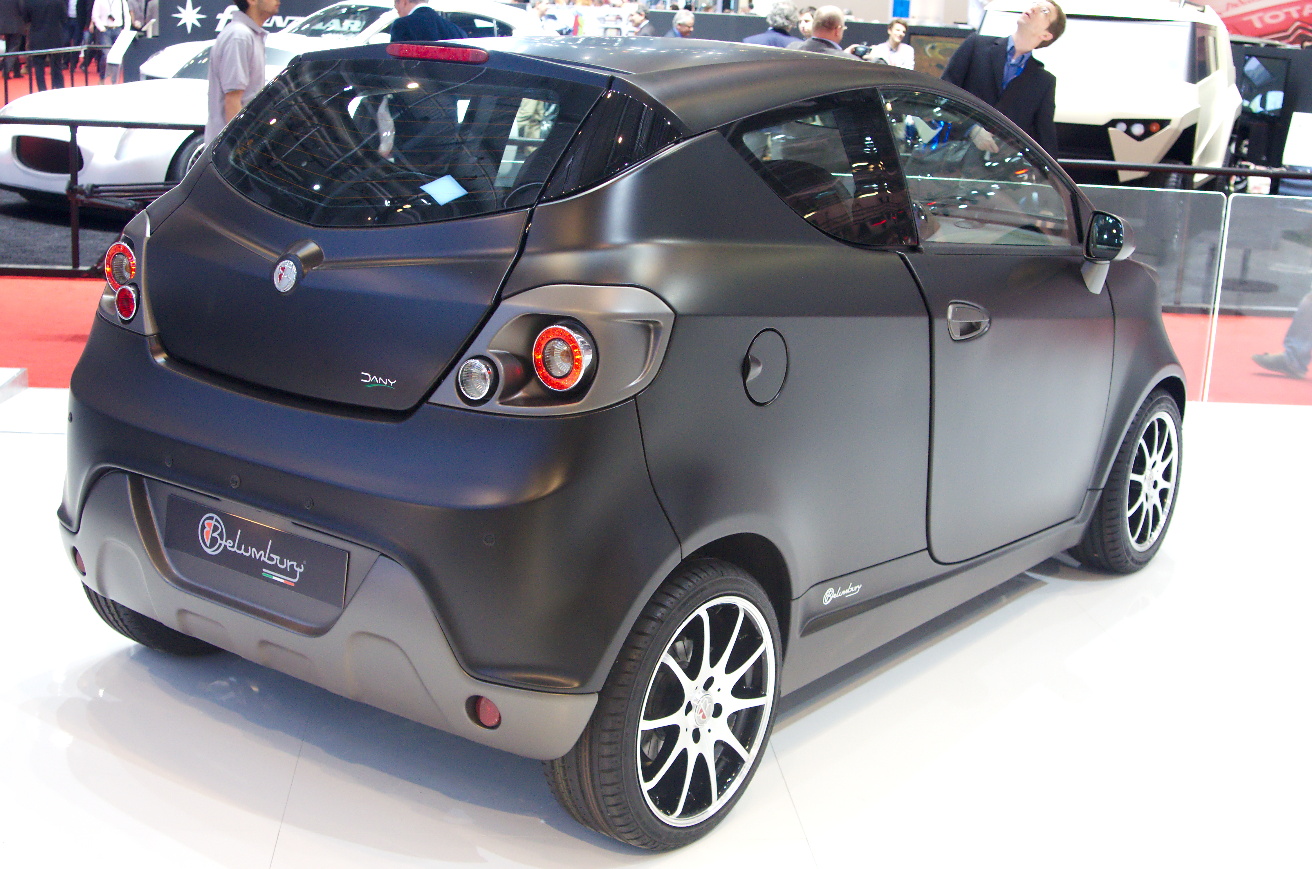 Geneva MotorShow 2013 - Belumbury Dany black rear